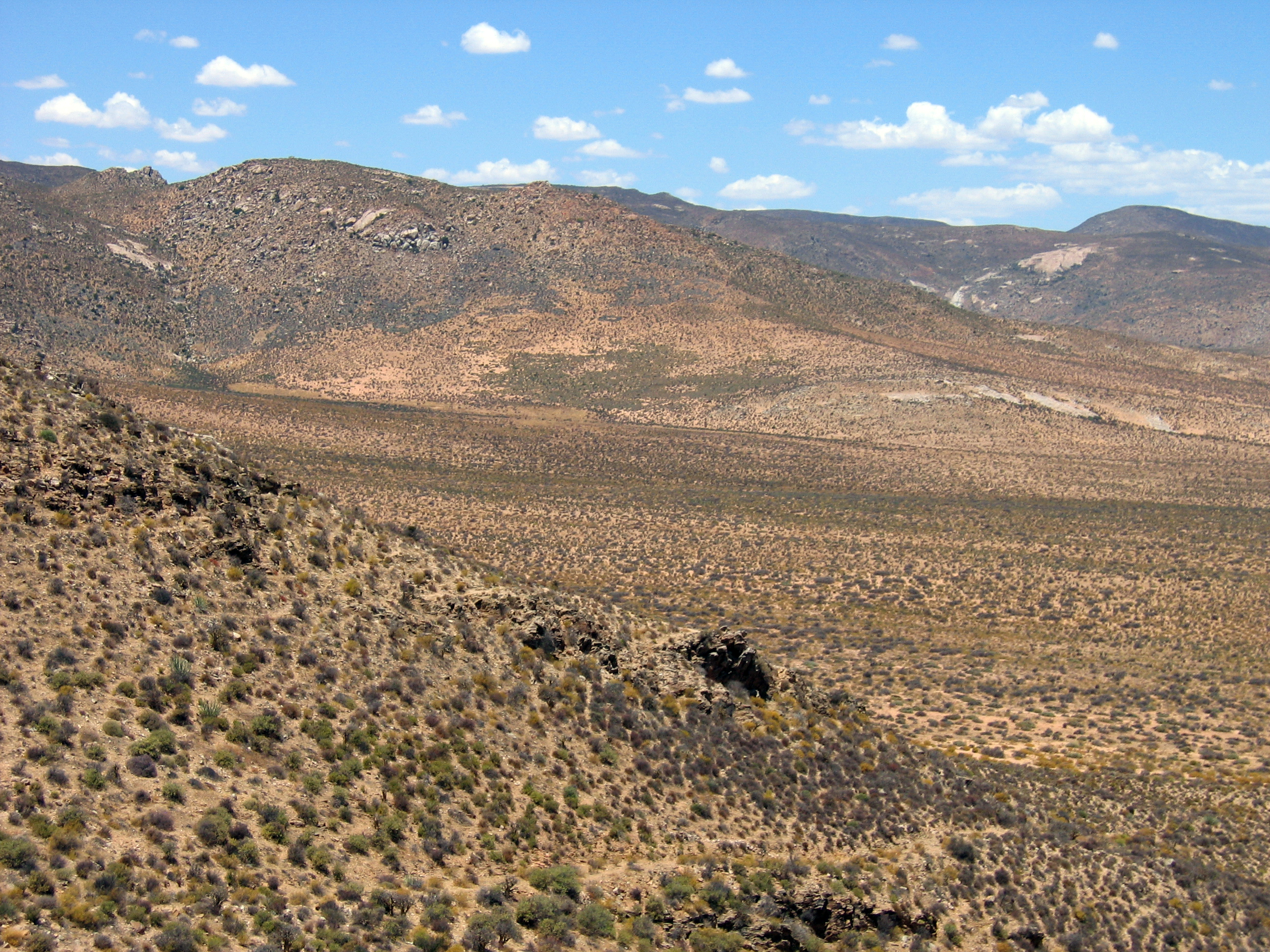 Southern Cape landscape. Picture is taken on the R382 road near Steinkopf.